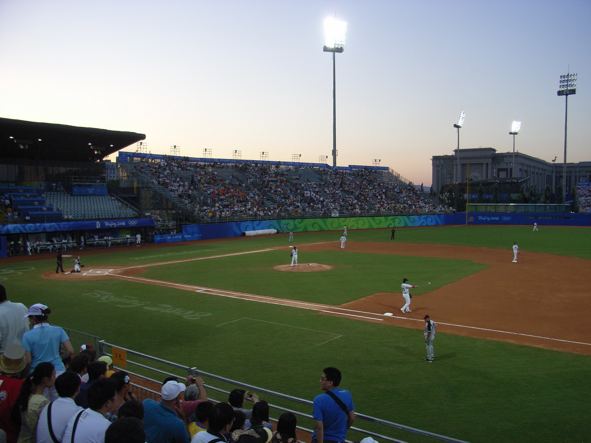 Baseball game in 2008 Olympic Games Japan Vs Holland in Wukesong Baseball Field (Main field) 中文（中国大陆）: 2008年奥运会棒球预赛日本Vs荷兰与五棵松棒球场主球场